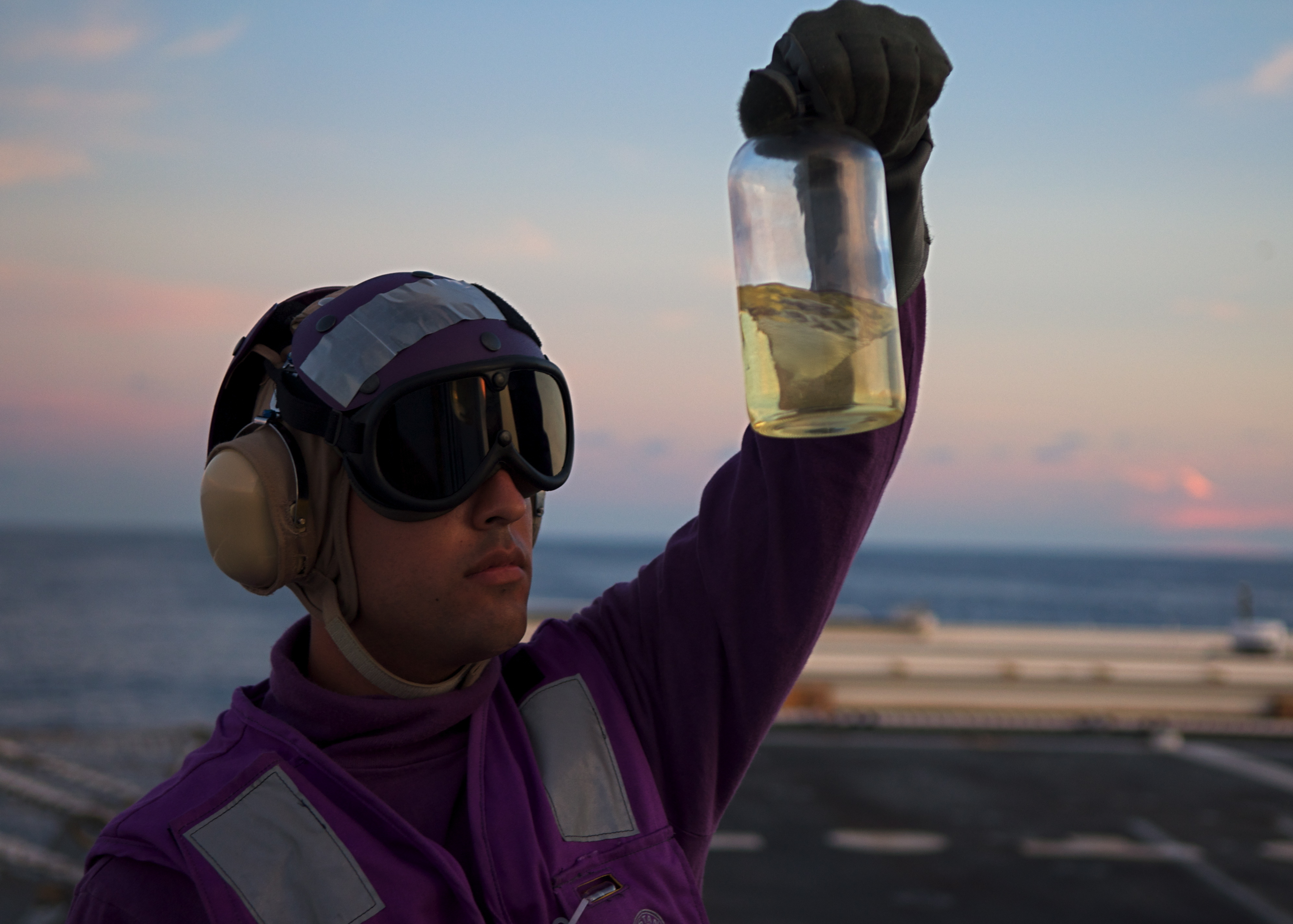 EASTERN PACIFIC OCEAN - Petty Officer 2nd Class Eric Rodriguez Perez, an aviation fuel team member, looks for sediment and water during an aviation fuel clear and bright test onboard the Coast Guard Cutter Bertholf Jul 12, 2009. Aviation fuel team members are responsible for refueling the helicopter and maintaining aviation fuel. (U.S. Coast Guard photo/Petty Officer 3rd Class Michael Anderson)